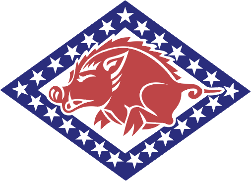 Arkansas National Guard - Emblem